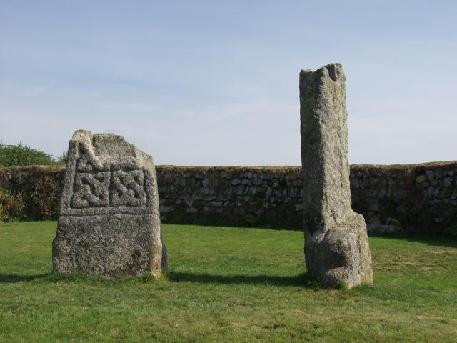 King Doniert's Stone. Ancient engraved cross base by the roadside.